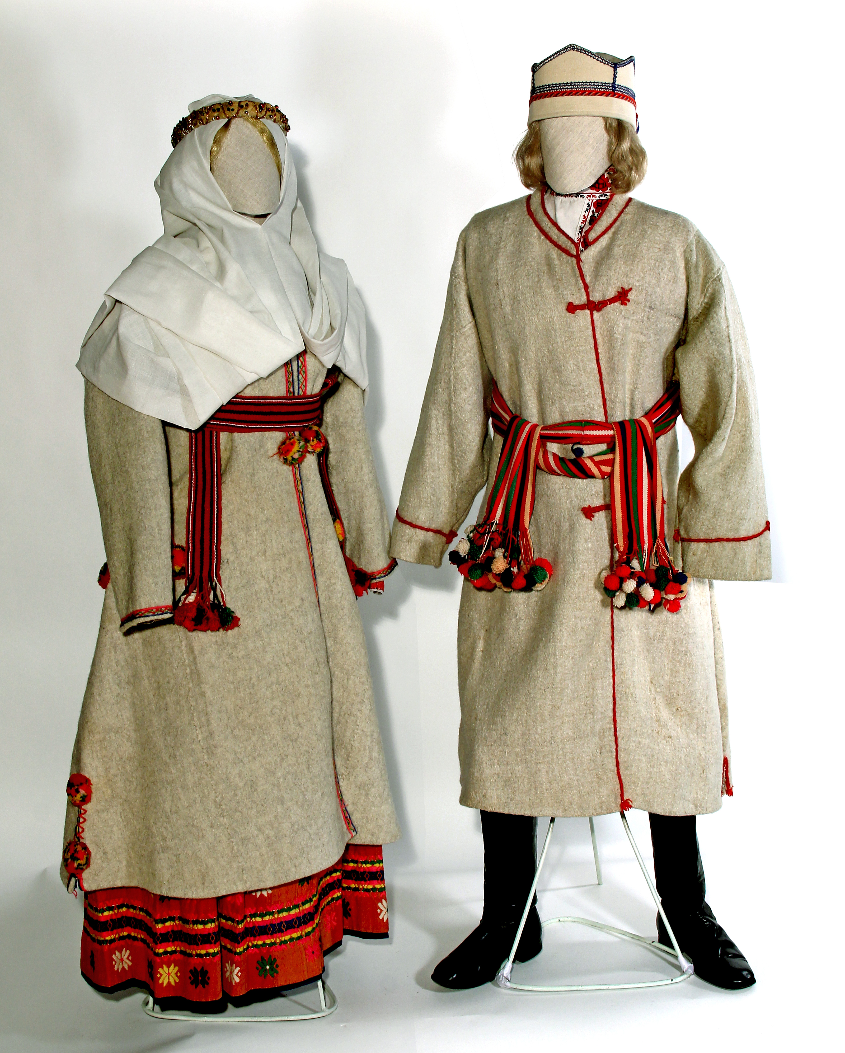 Traditional winter clothing of the Belarusian peasants, XIXth century. Location: Museum of Belarusian Folk Art (Minsk city, Belarus)